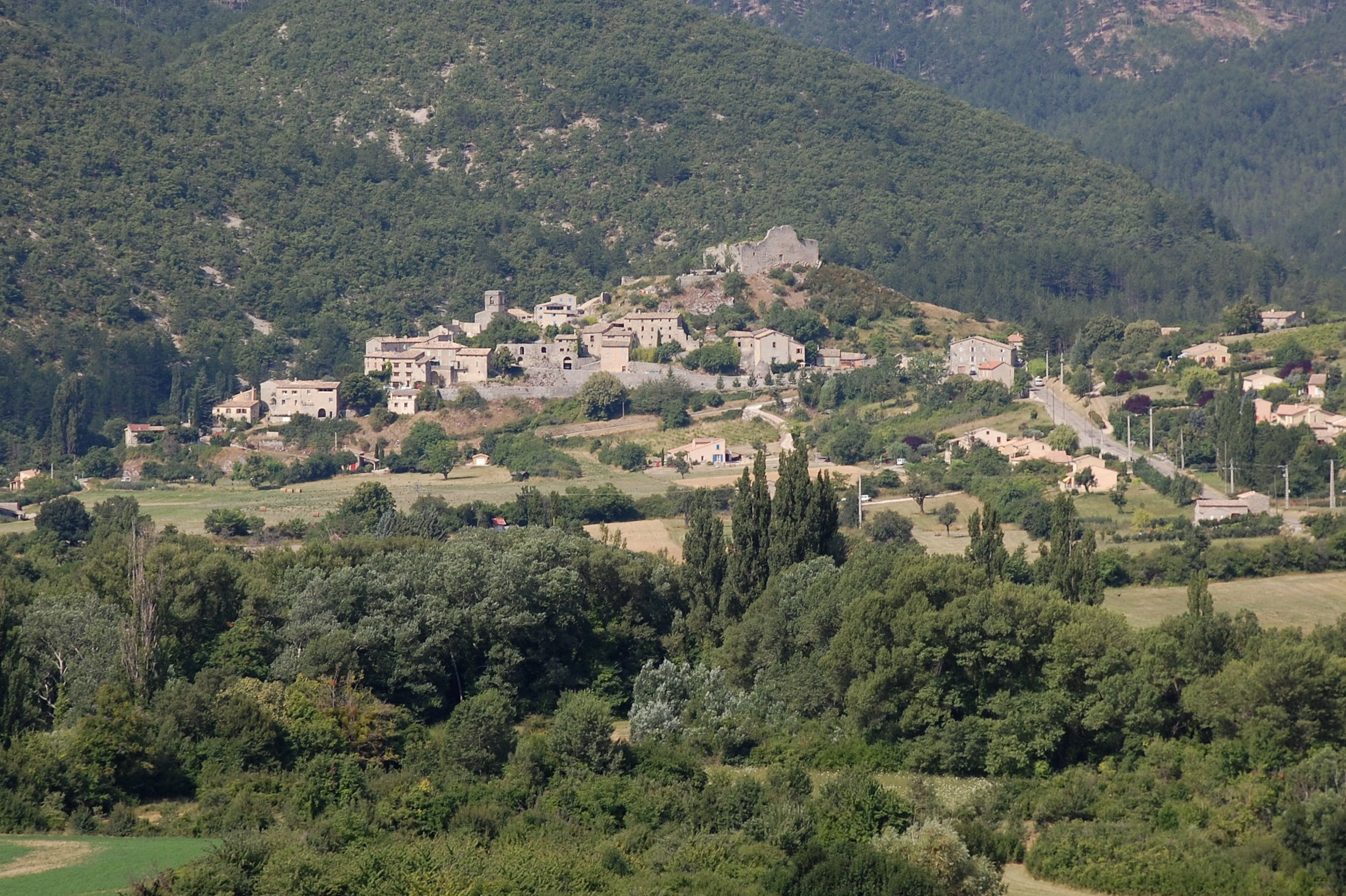 Reilhanette